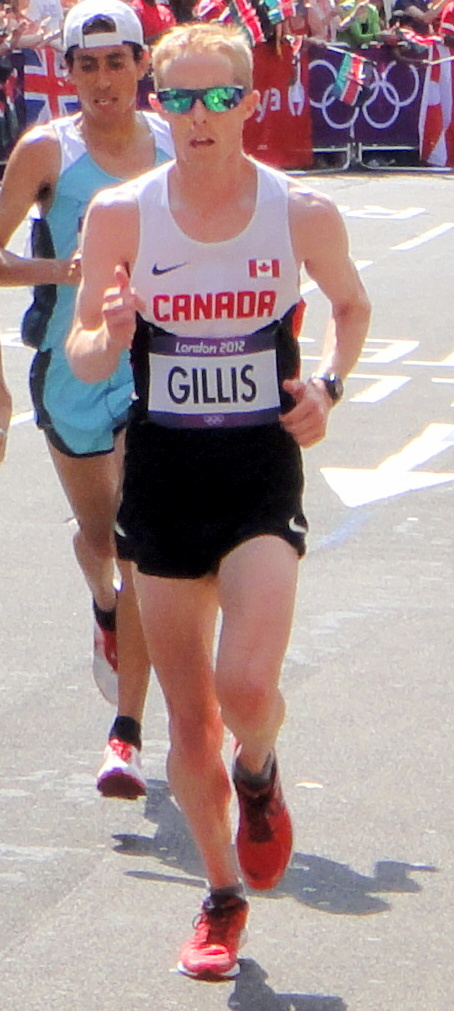 Vitaliy Shafar (Ukraine) and Eric Gillis (Canada) - London 2012 Men's Marathon